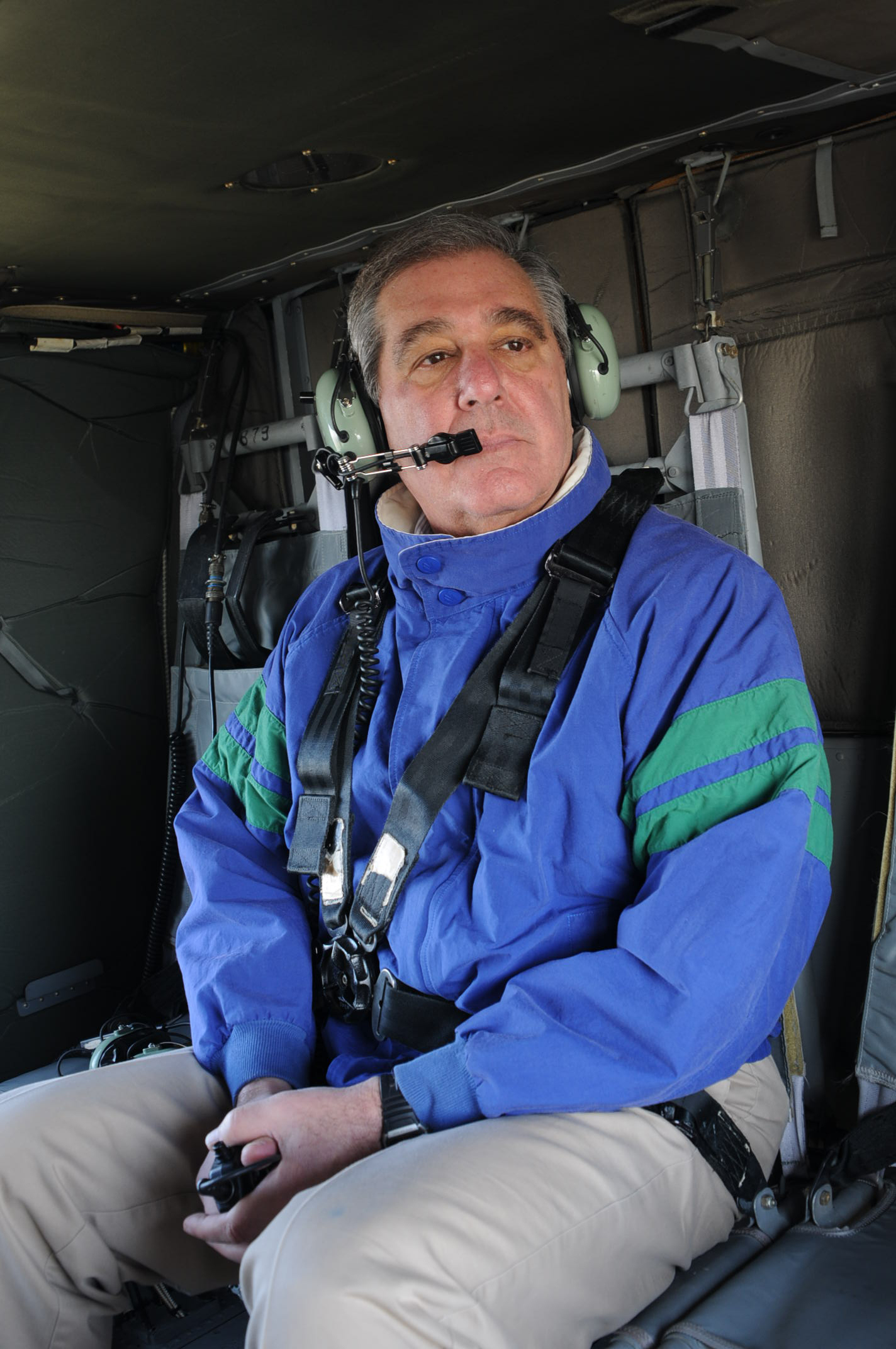 Kentucky's Lt. Gov. Jerry Abramson surveys the widespread damage caused by powerful storms over Laurel, Ky., from a Kentucky Guard UH-60 Black Hawk helicopter March 3.